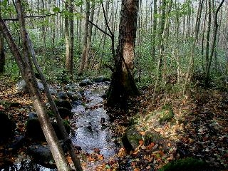 A brook in DenmarkDansk: Oktober: Efterår ved en bæk